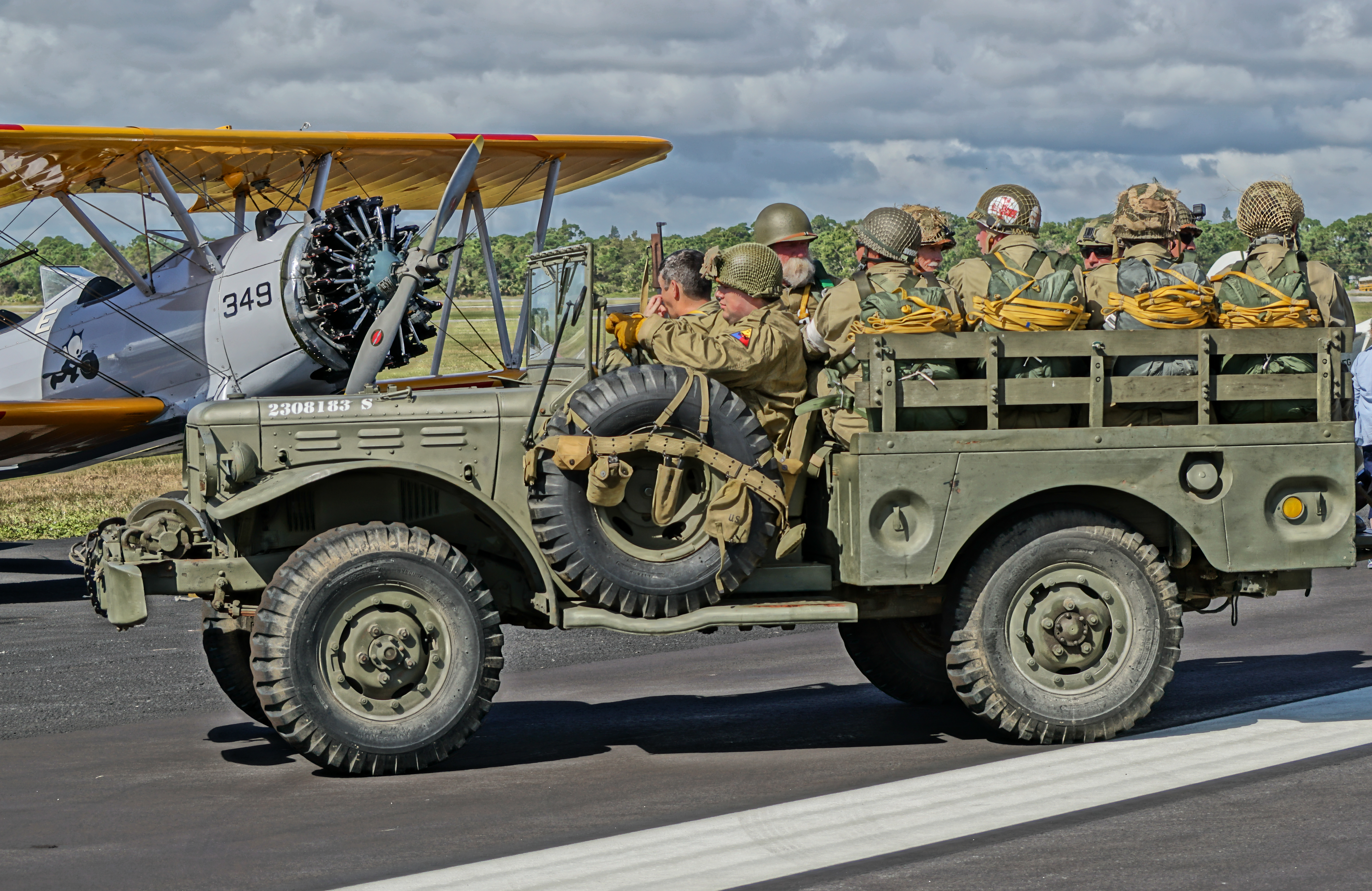 UnEdited Stewart Airshow 2017